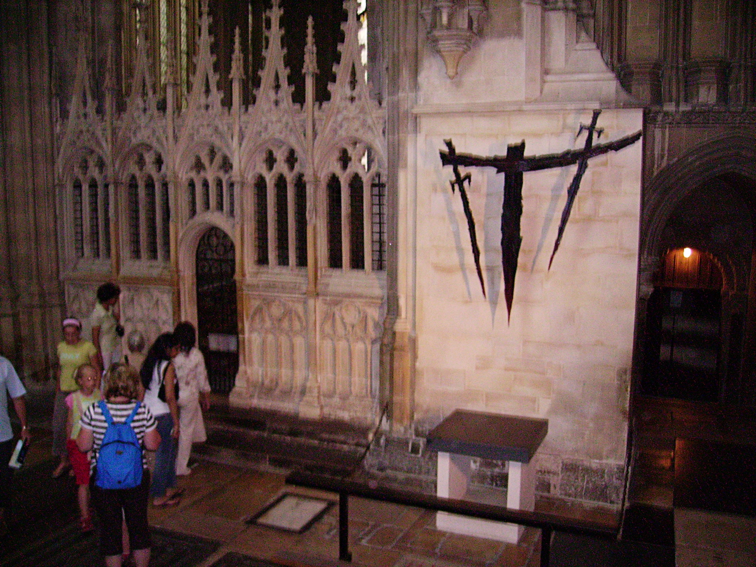 sculpture in Canterbury Cathedral memorializing the martyrdom of Thomas Becket